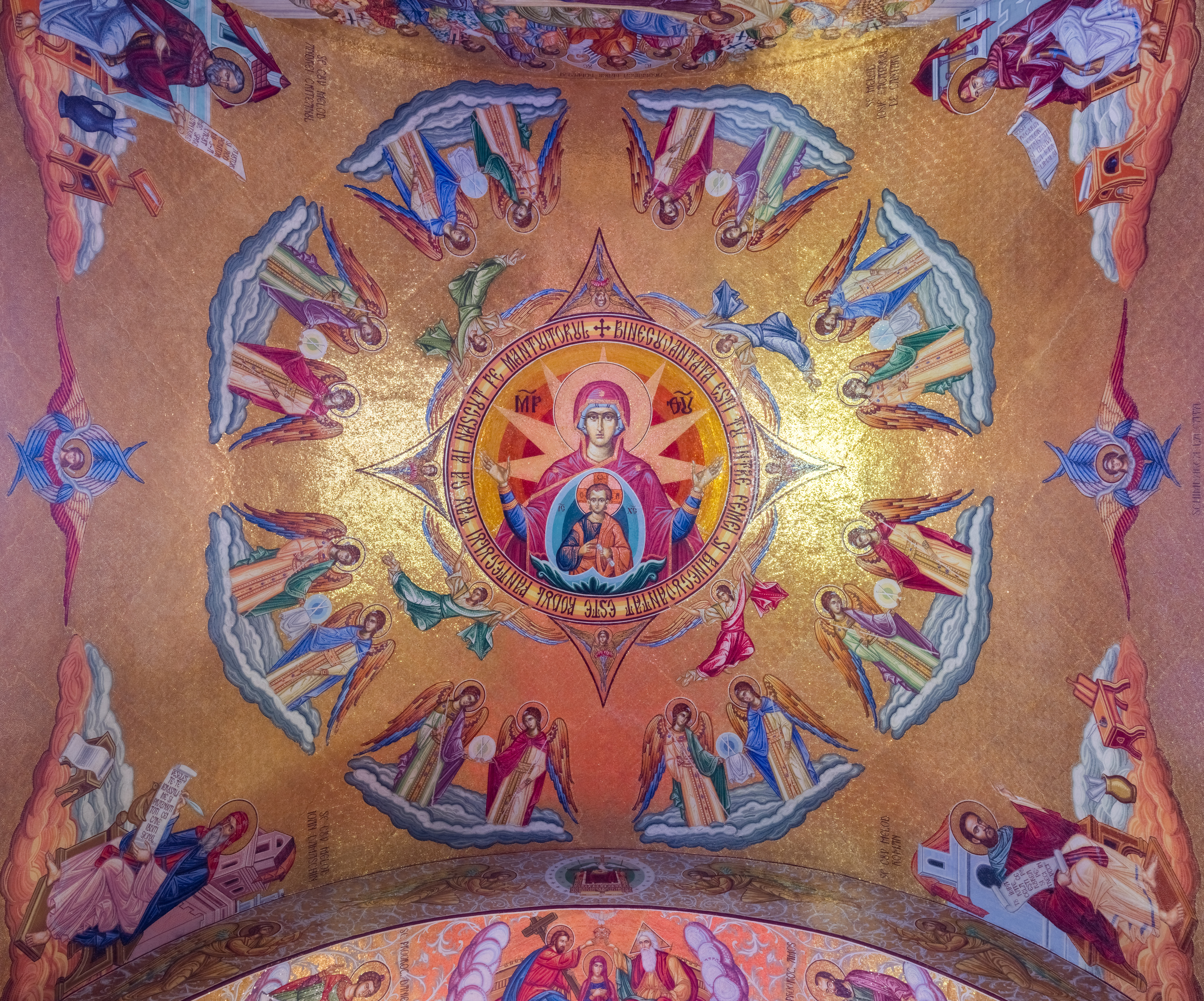 Cocos Monastery, Romania